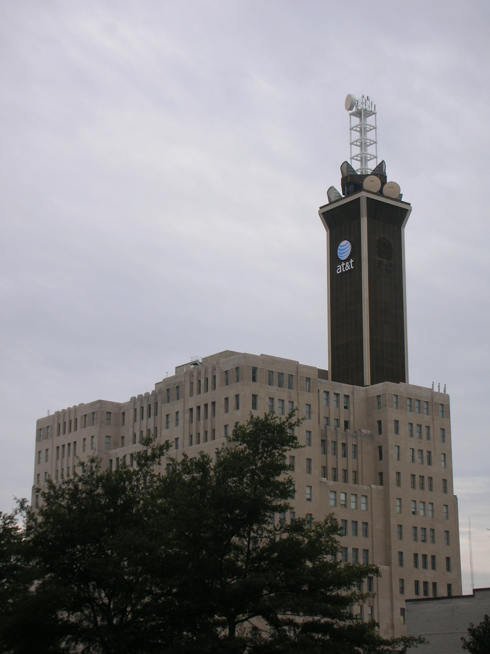 Category:Images of Atlanta, Georgia